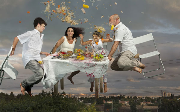 "Trampoline" by Meirav Heiman, c print, 120x160 CM, 2010